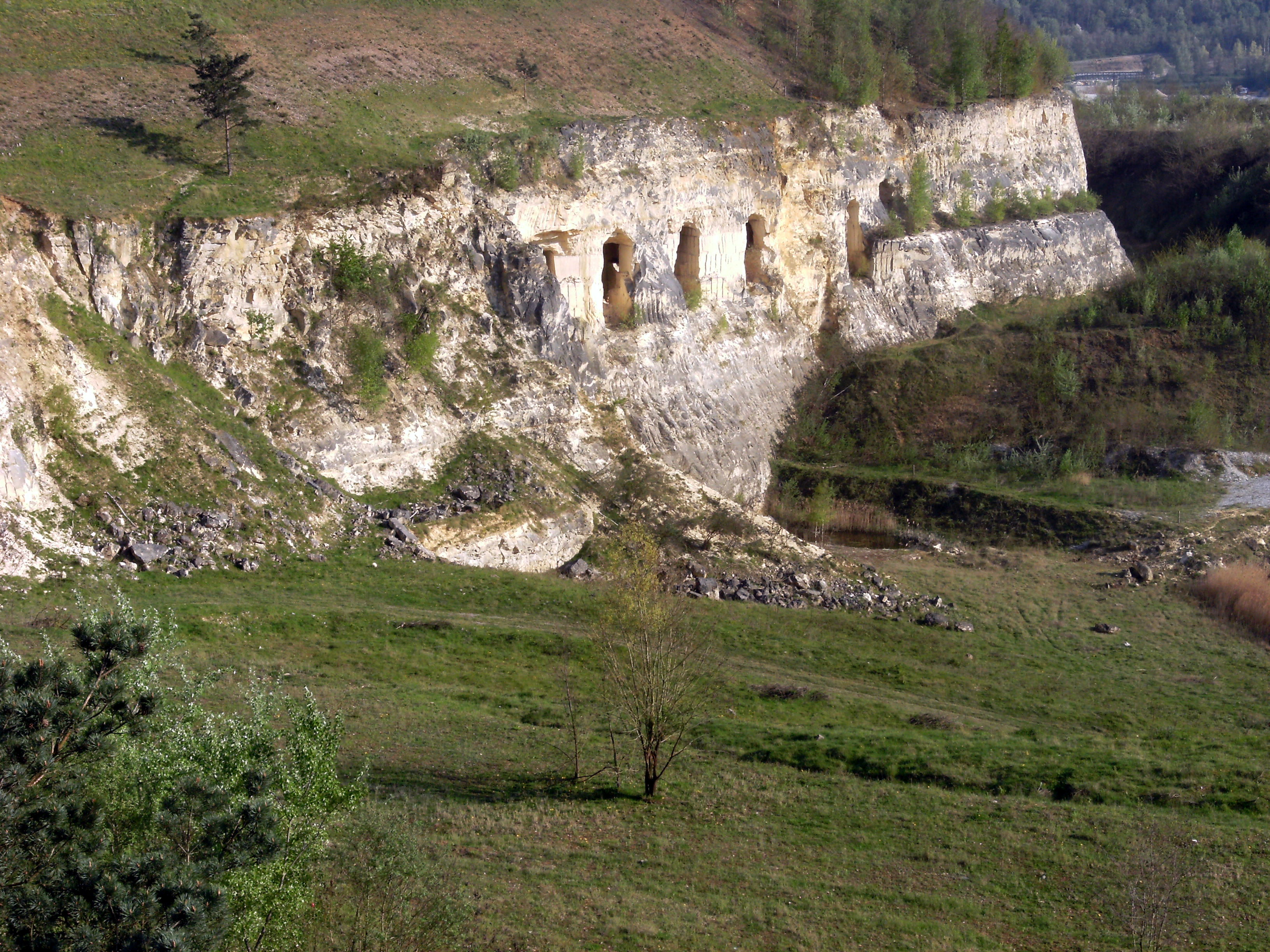 2013-05-04 in Maastricht; Views of ENCI Quarry.